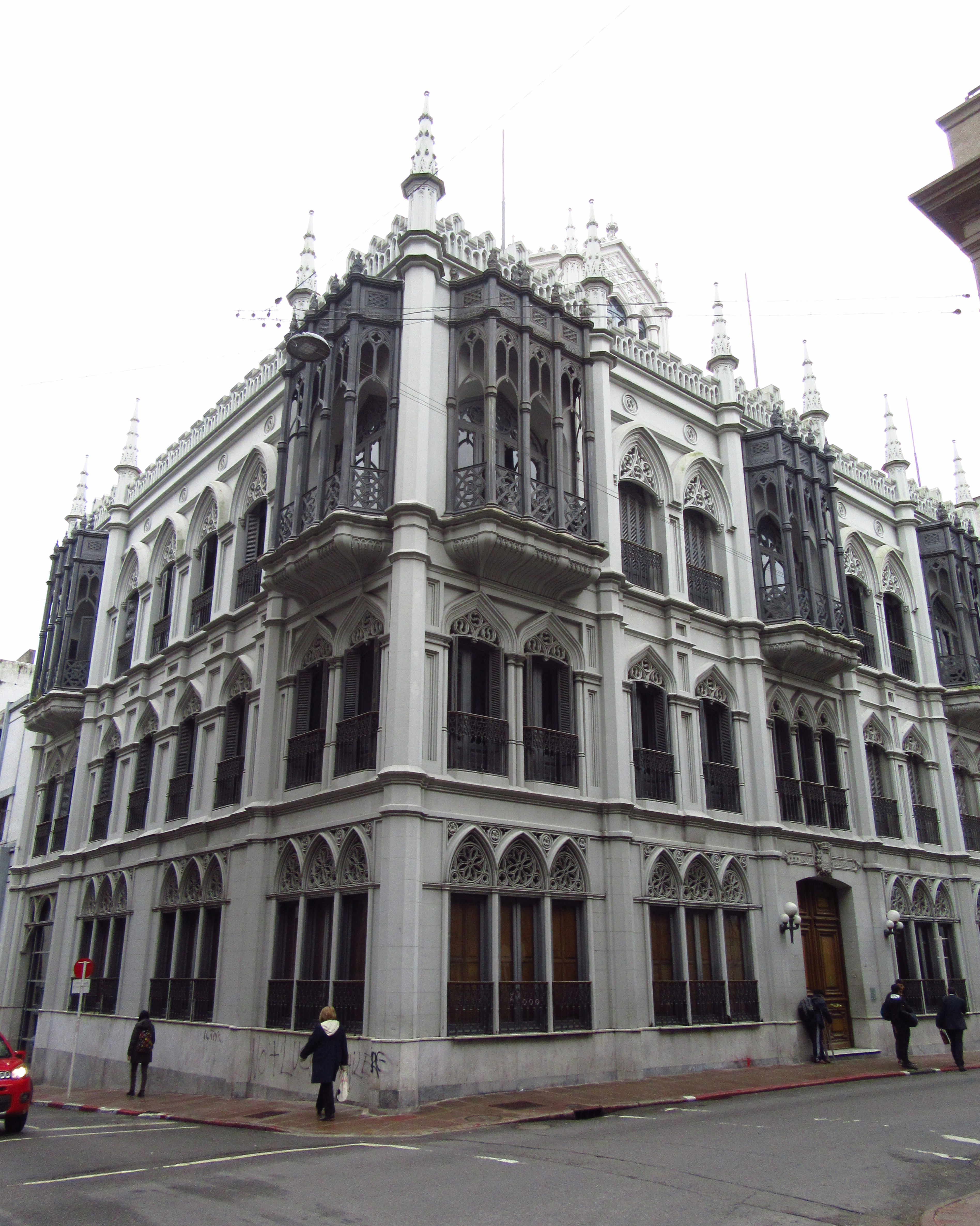 Montevideo